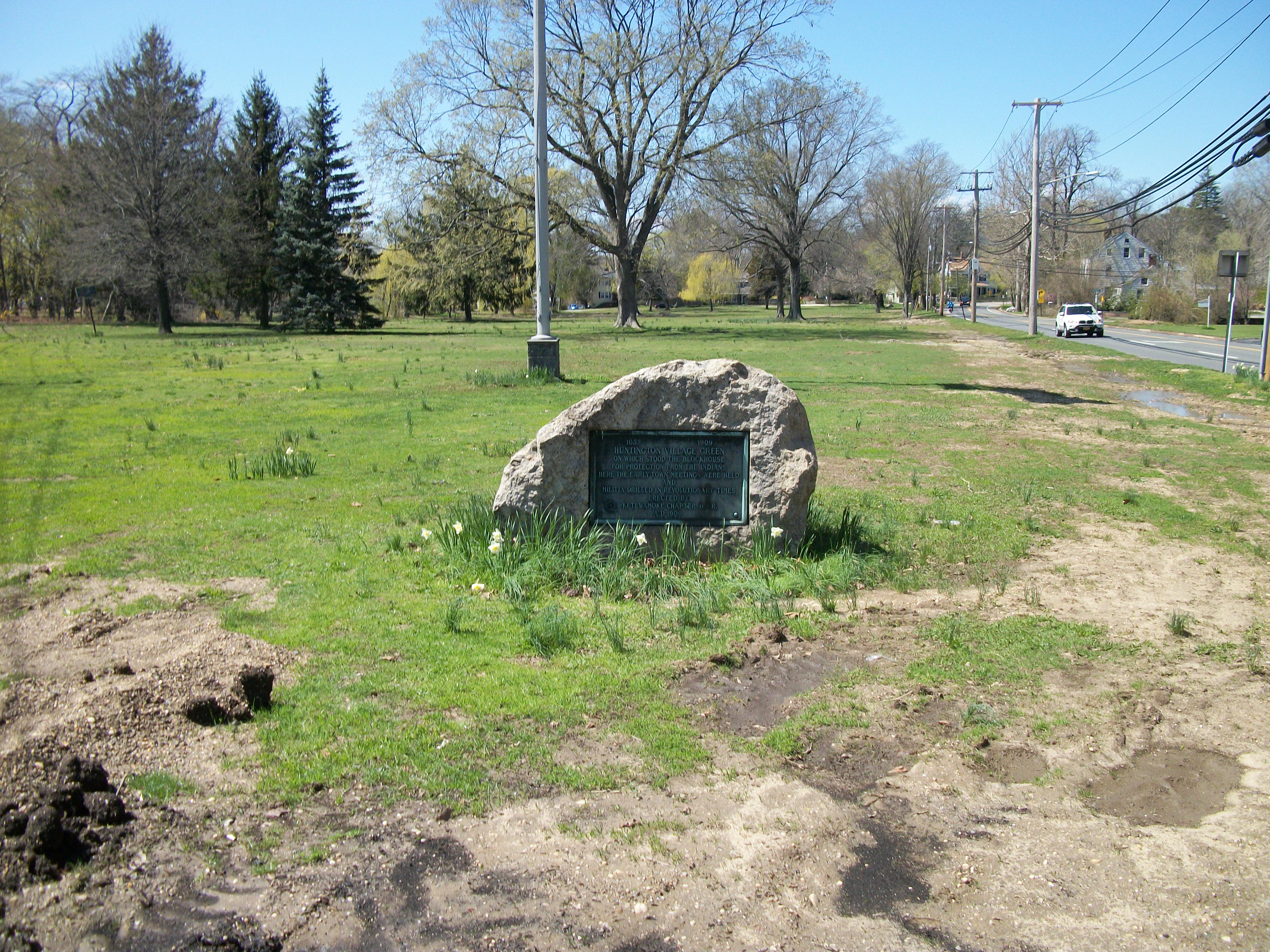 An old plaque on a rock along the Huntington Town Green within the Old Town Green Historic District, in Huntington, New York. This stone, and this section of the green can be found on the northwest corner of New York State Route 25A and Park Avenue. Part of the Green is also on the southwest corner, believe it or not.